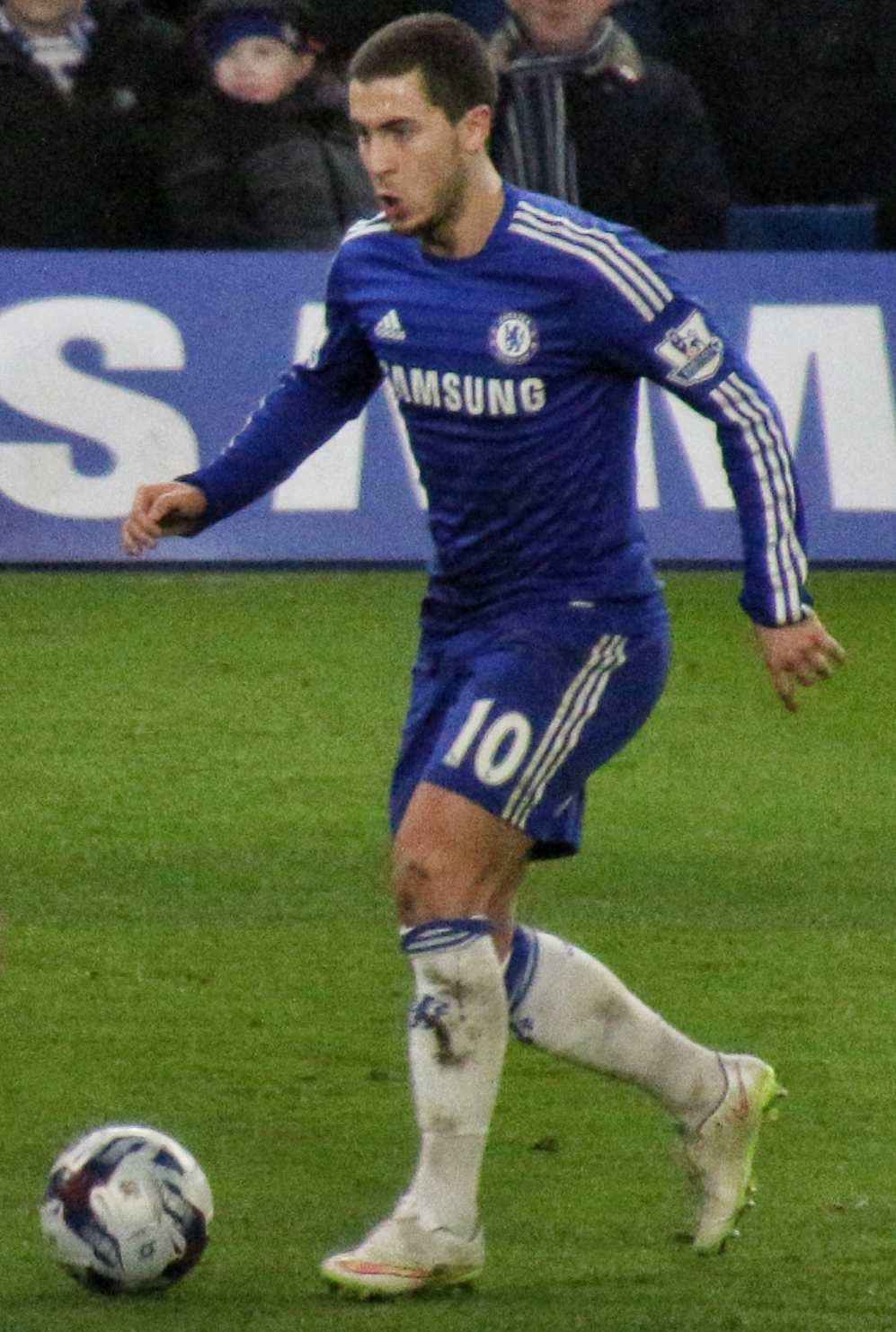 Chelsea 1 lLiverpool 0 (2-1 agg) Capital One Cup semi final 2nd leg On our way to Wembley!